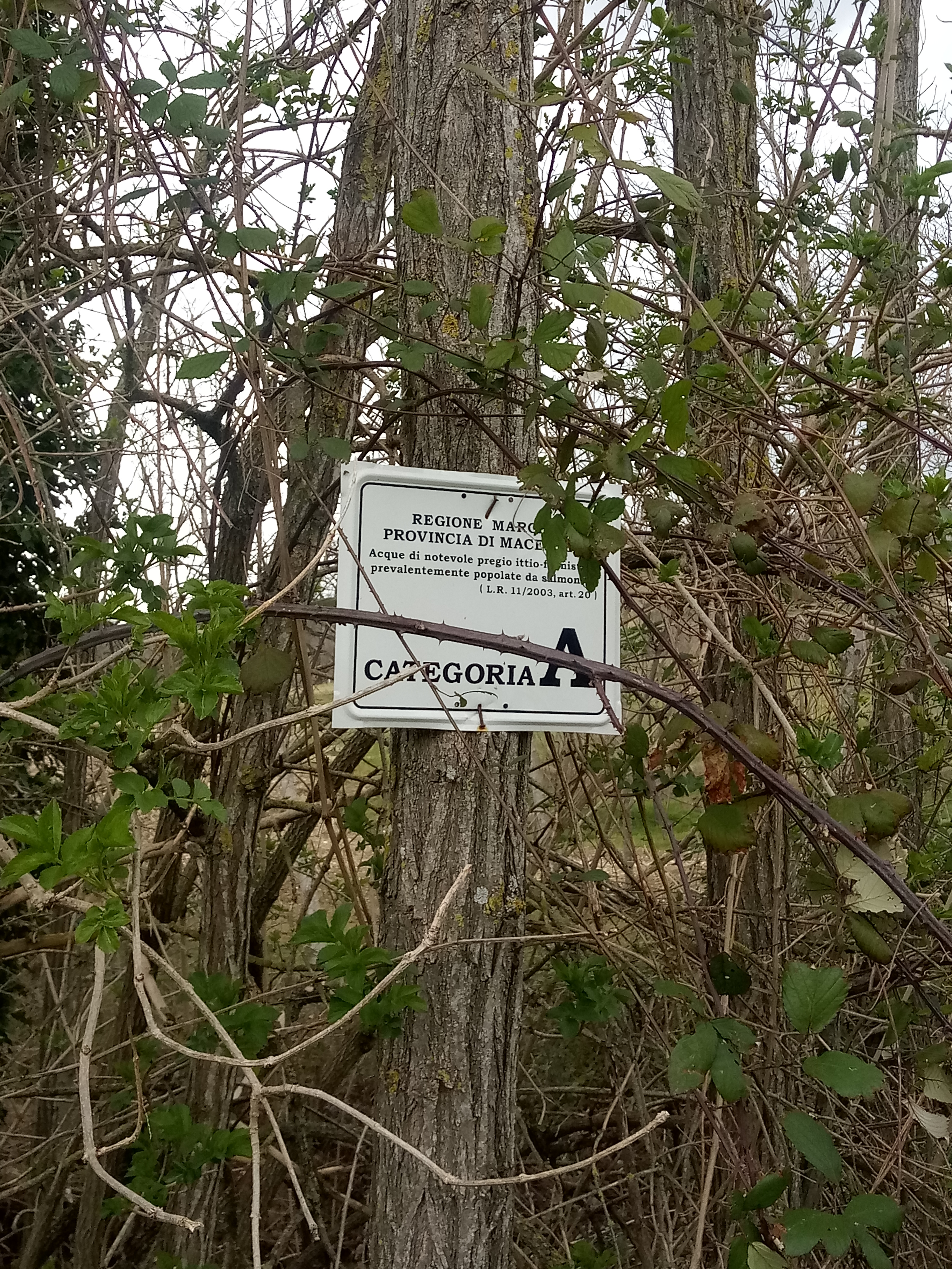 Sign near the river